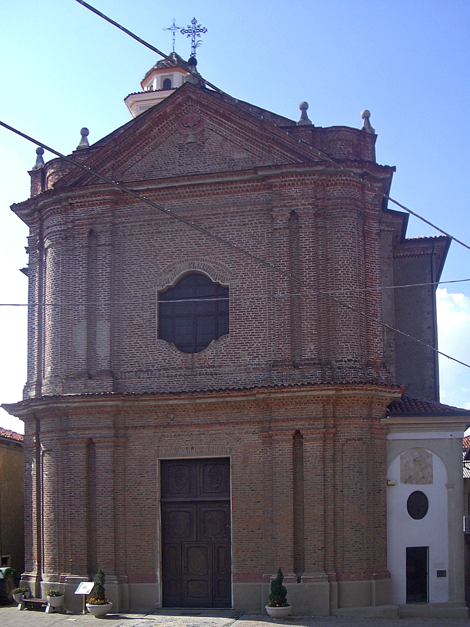 Vialfrè, Church dedicated to St Peter and St Paul (1750-1767)